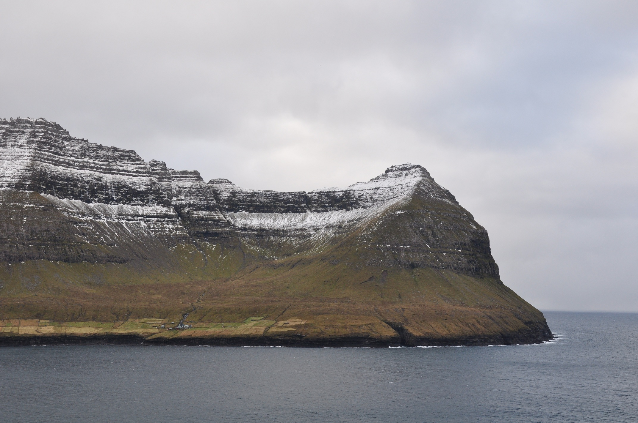 The northern tip of the island of Borðoy (Faroe Islands) with the hamlet of Múli. Seen from a location near Viðareiði on the island of Viðoy. The peak on the right is Tindur (535 m); the craggy peaks on the left are Knúkur (642 m).